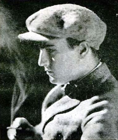 American actor George O'Hara from a news item concerning his hiring by the Sennett studios, from page 29 of the January 1921 Film Fun.